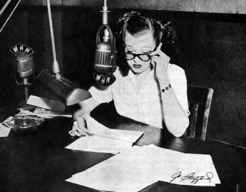 Photo of Jo Stafford checking over the script before going on the air with her radio program. The public did not see her in glasses.